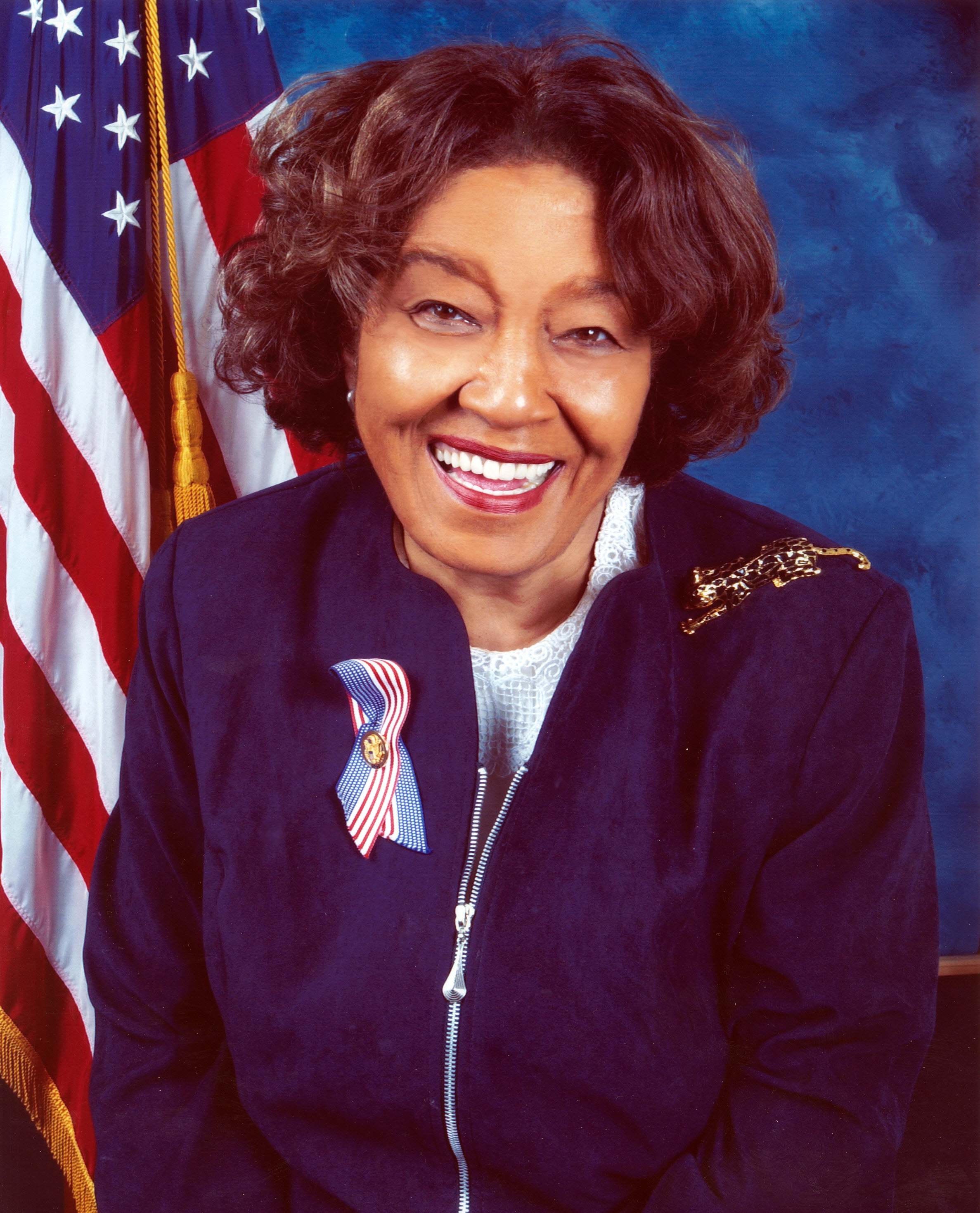 Julia Carson, member of the United States House of Representatives.